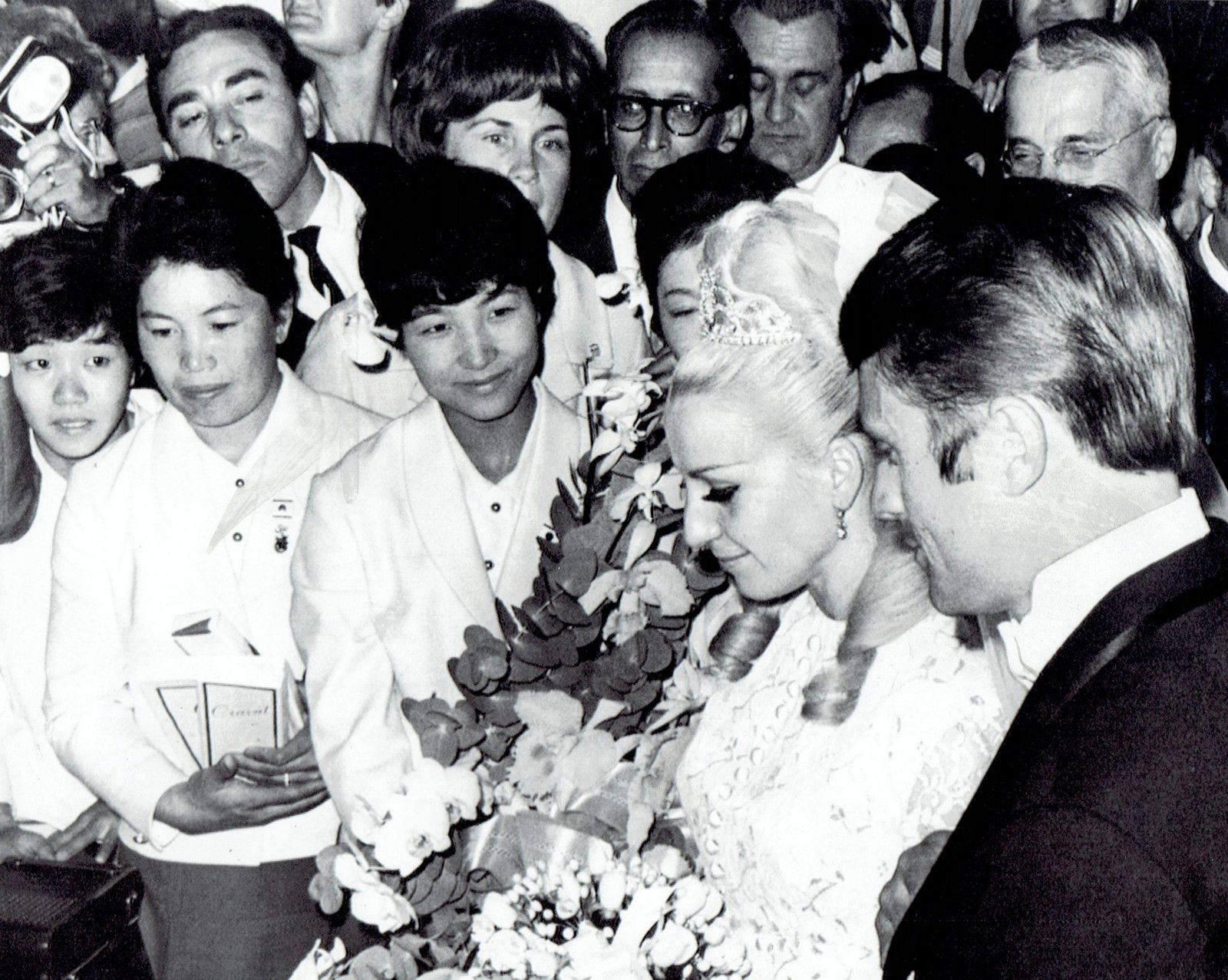 1968 Wire Photo marriage ceremony of Gymnast Vera Caslavska runner Josef Odlozil